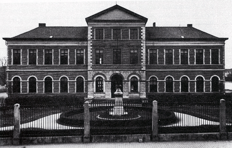 Old atheneum building Tienen